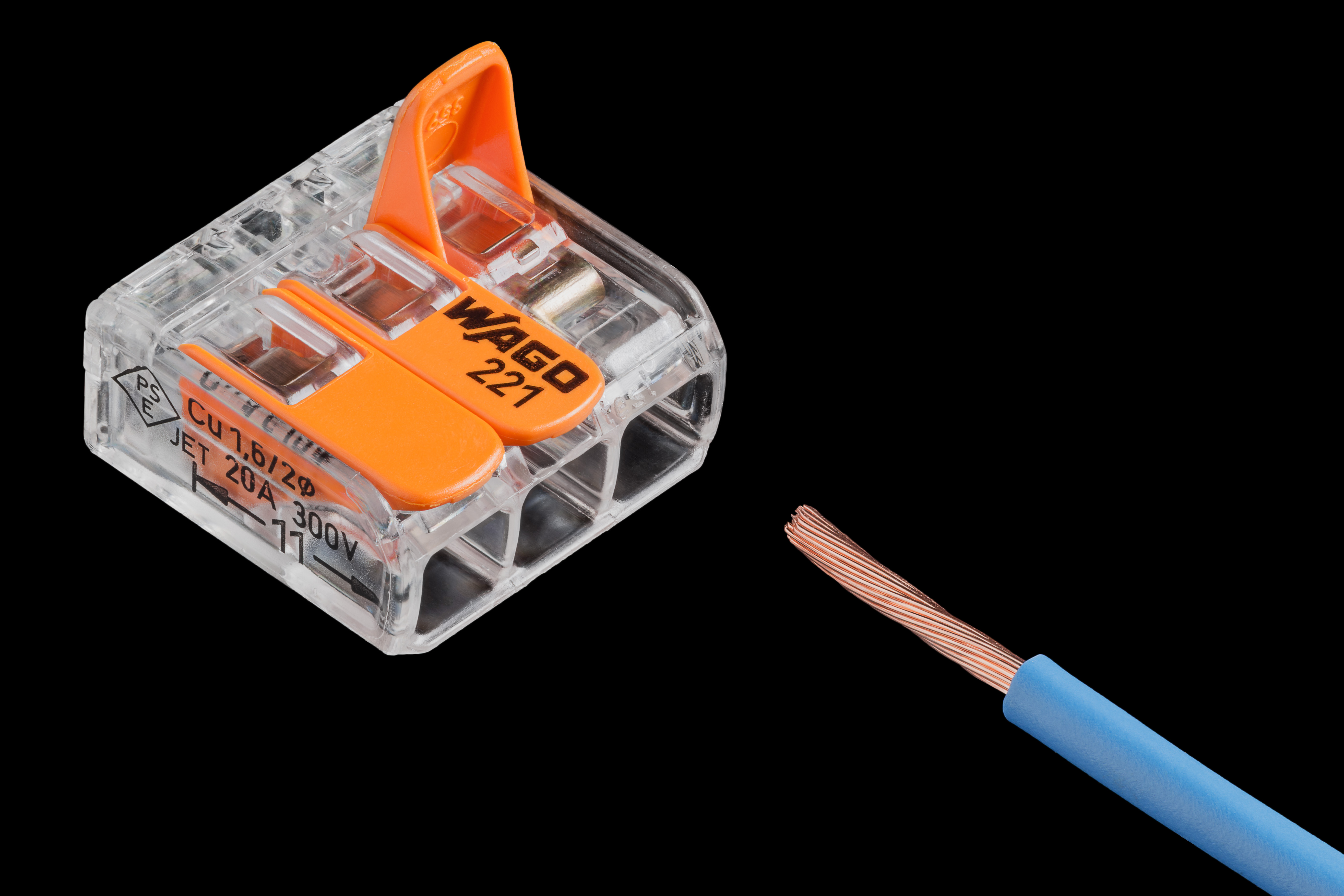 Wago COMPACT 221-413 3-terminal splicing connector for stranded and solid wires from 0.2 mm² up to 4 mm² cross area. Shown here is a 1.5 mm² (14 AWG) stranded copper wire with blue insulation. The orange lever lifts up the clamp inside.